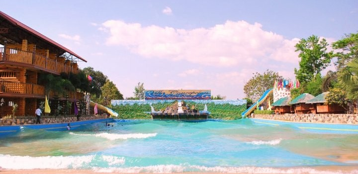 Villa Concepcion Wet and Wild